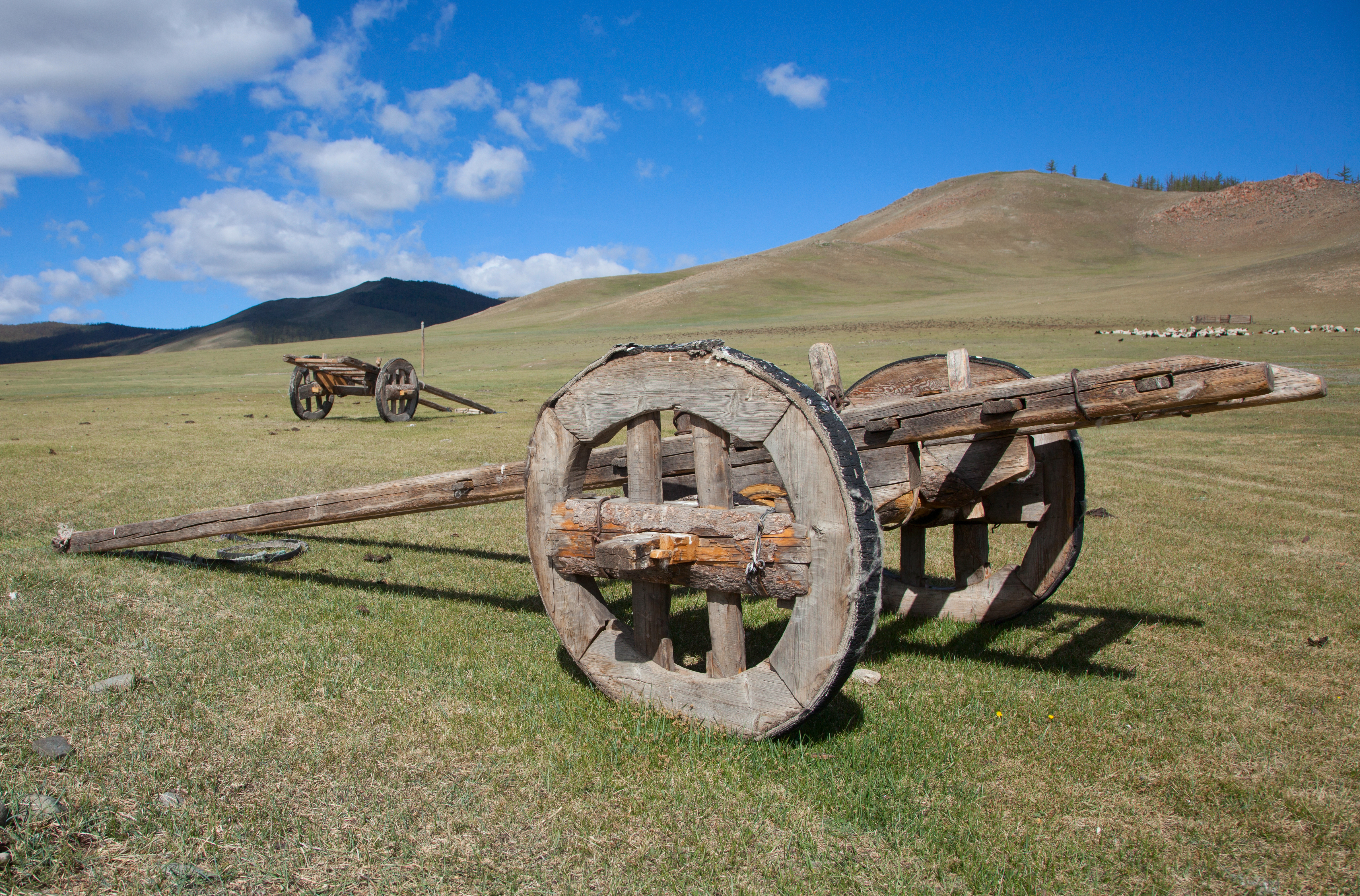 horse-drawn cart in Mongolia. Central Hangai